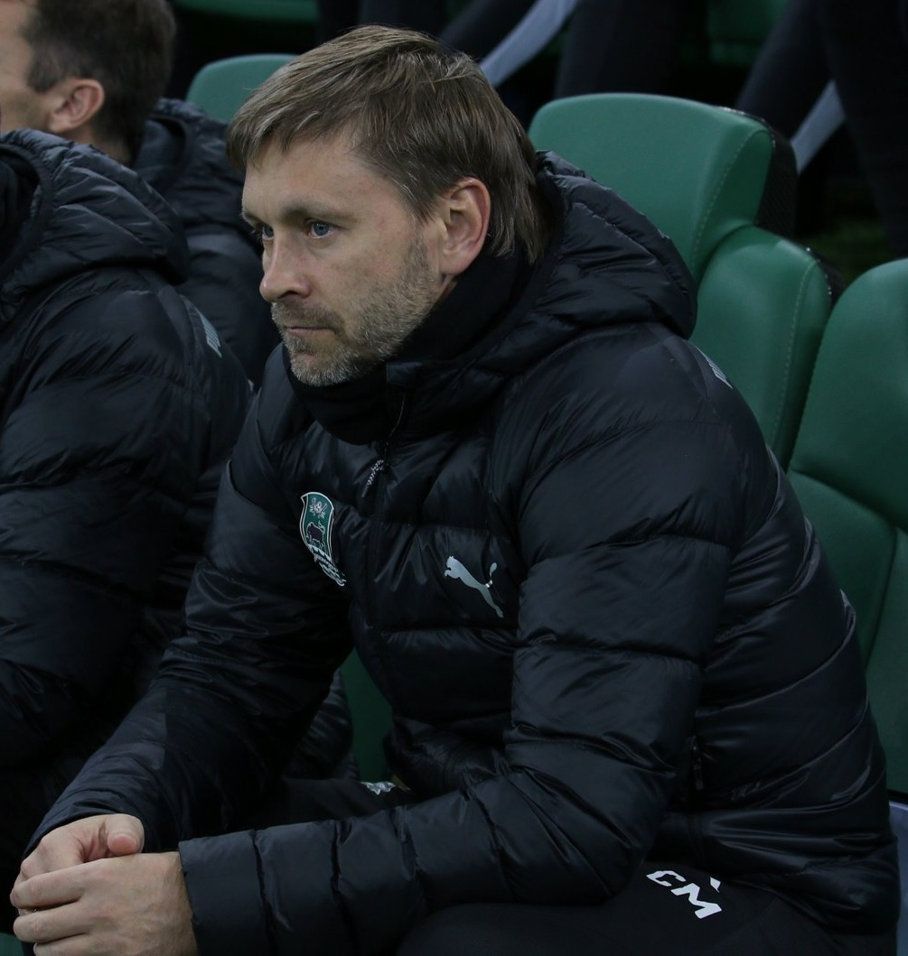 Sergey Matveyev coaching FC Krasnodar in an Europa League game against FC Basel.